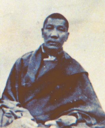 Zhenpen Chokyi Nangwa (b.1871 - d.1927)- first abbot of Dzongsar Monastery, Tibet (now in Sichuan, China)